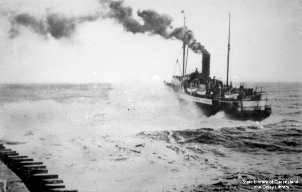 1,607 GRT passenger steamship Arahura